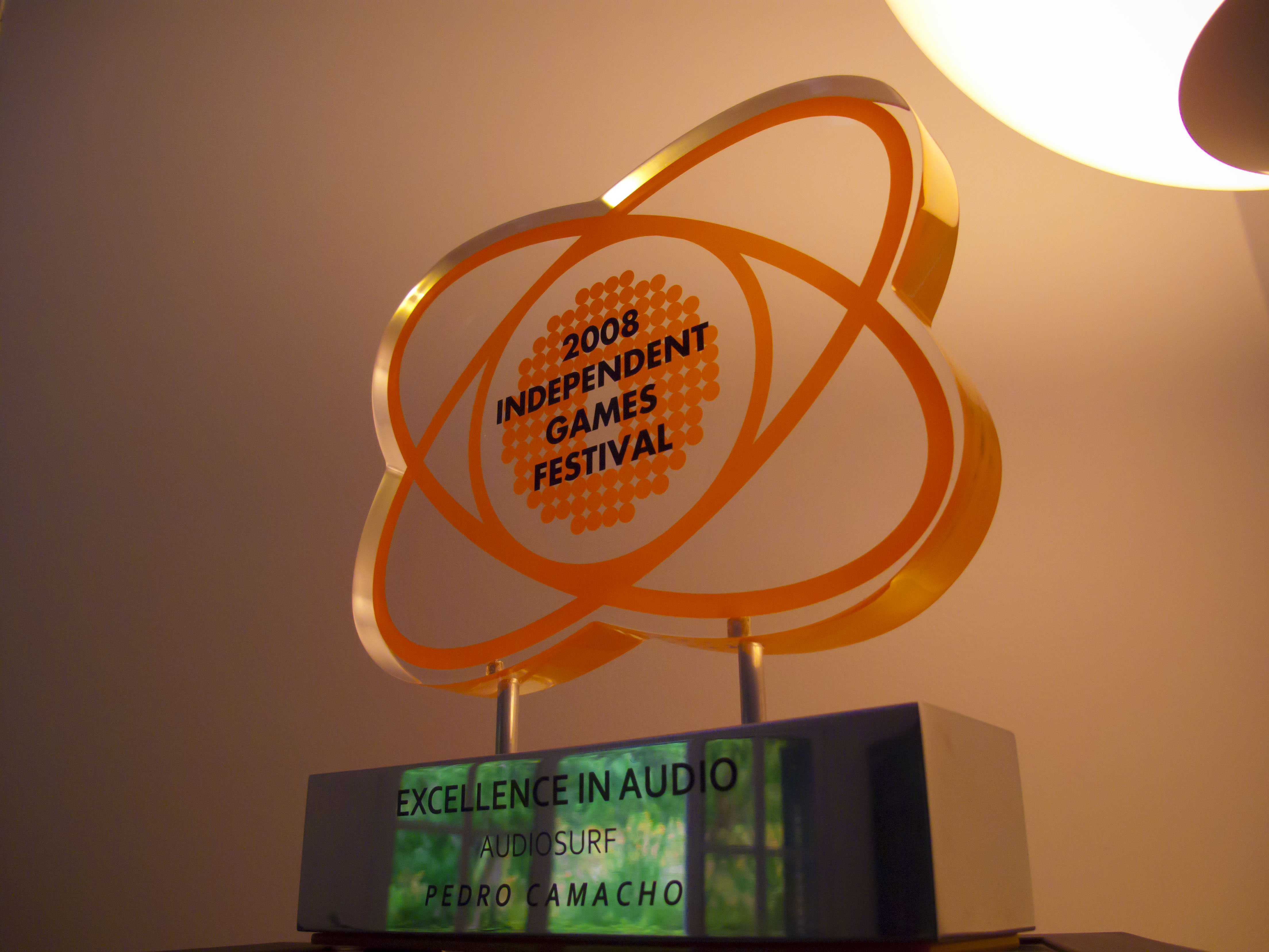 Independent Games Festival Award, photo taken by Pedro Macedo Camacho in his studio